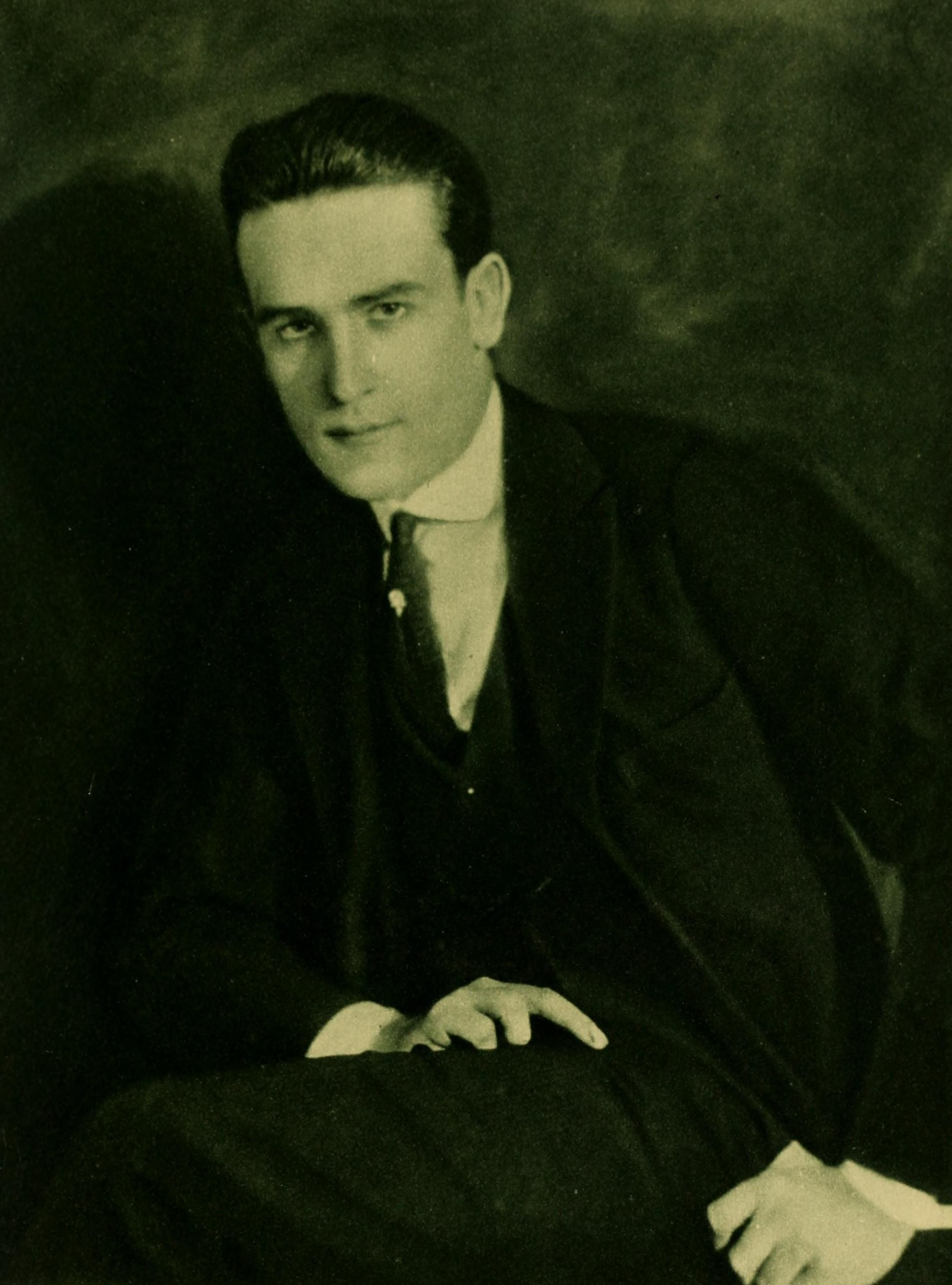 Harold Lloyd on page 23 of the February 1921 Photoplay magazine.